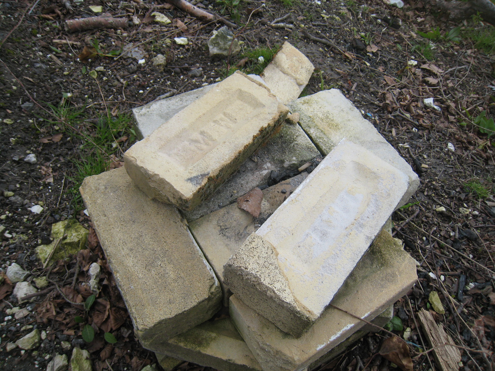 Midhurst White bricks at Cocking quarry